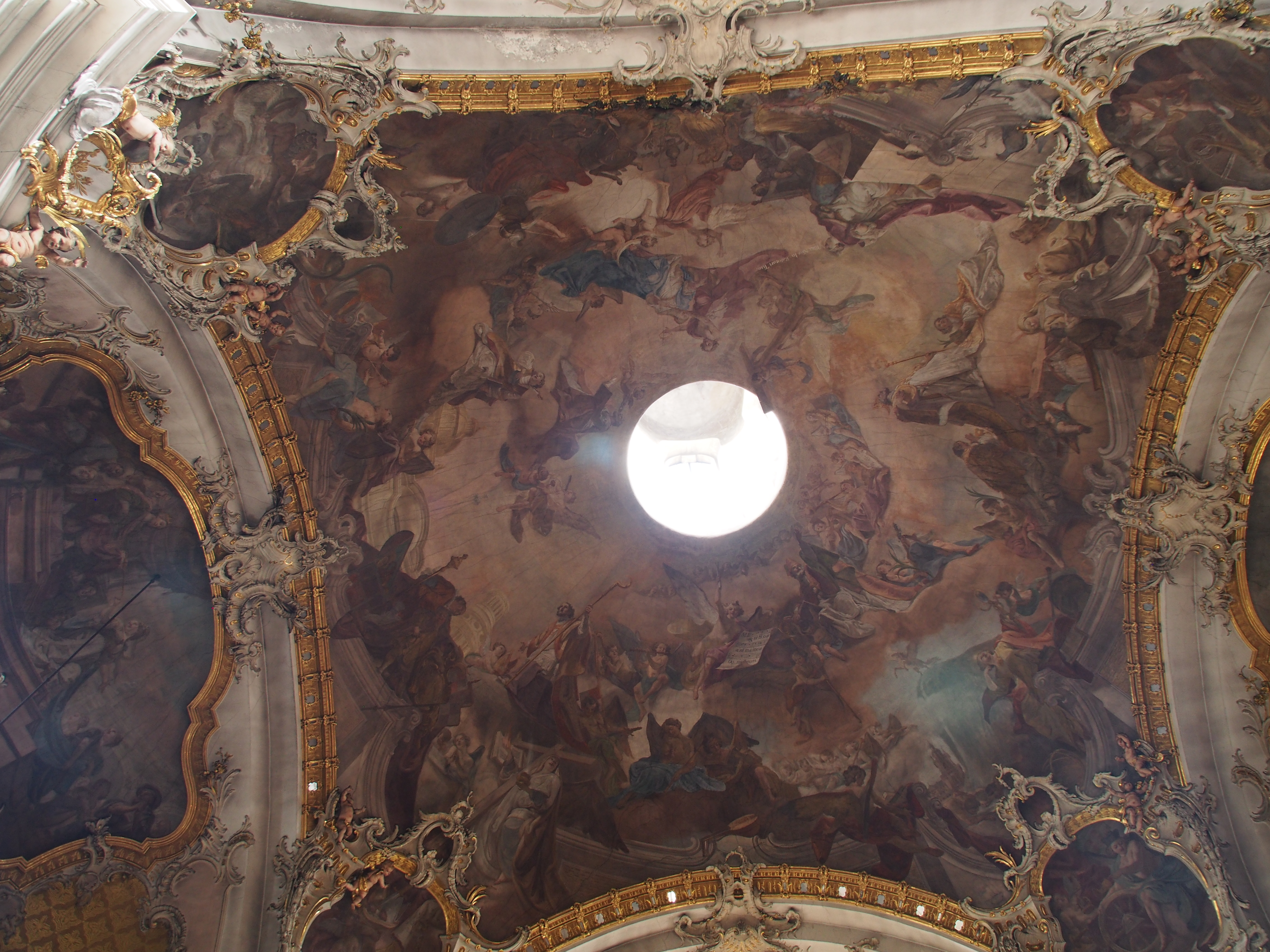 Descent from the Cross and Mary as apocalyptic women